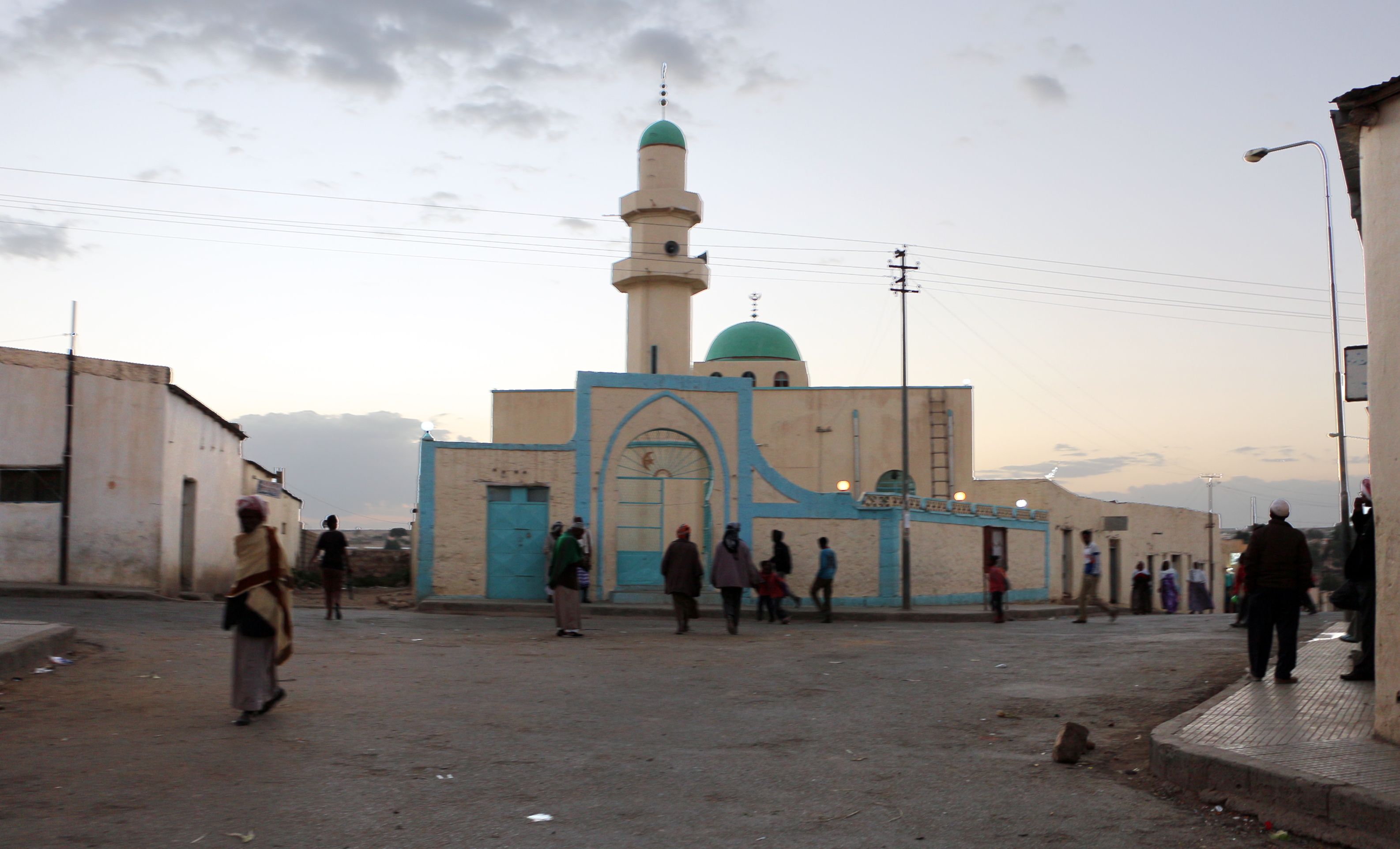 Adi Keyh